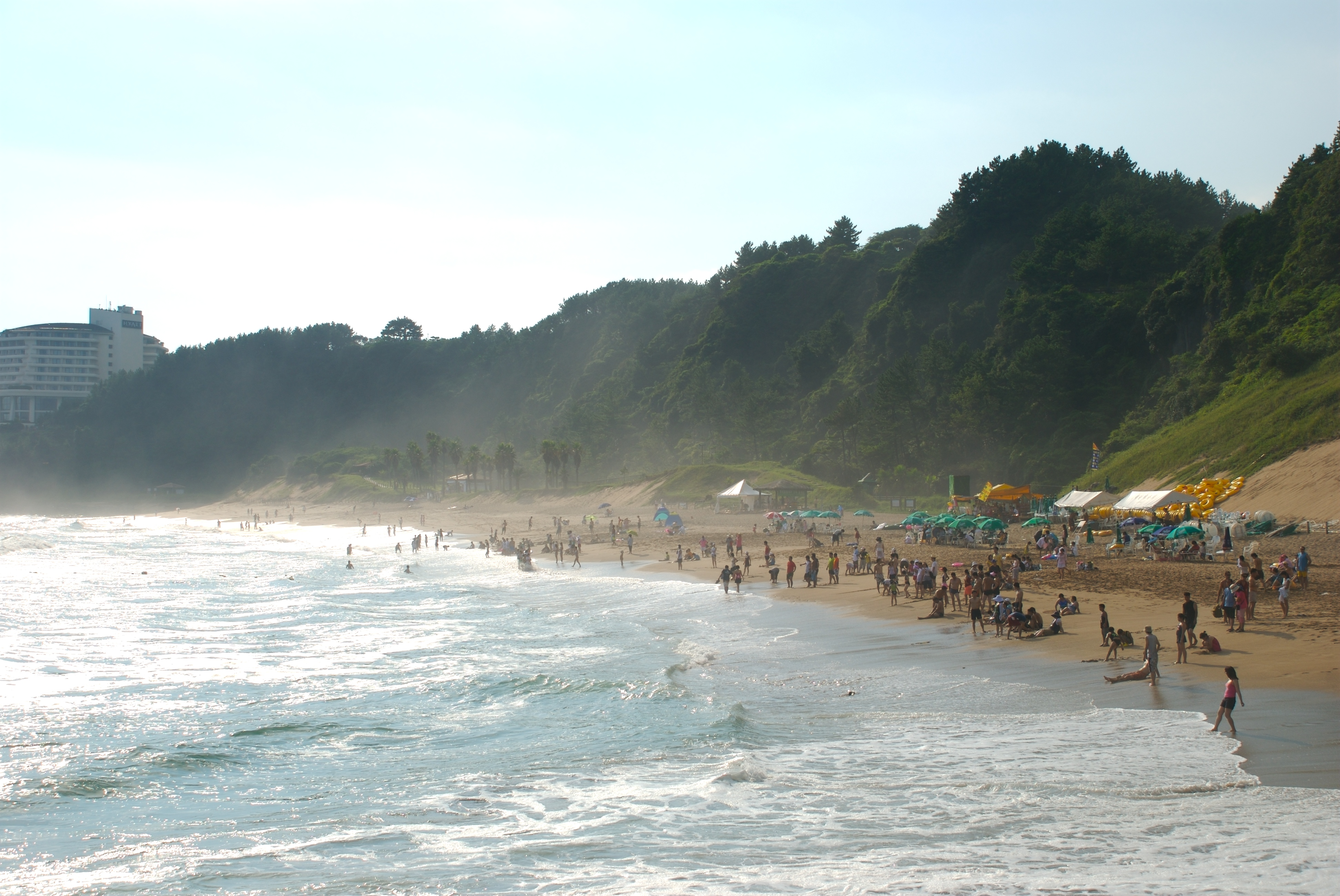 Beach at the Jungmun Tourism Complex in Jeju-do, South Korea.